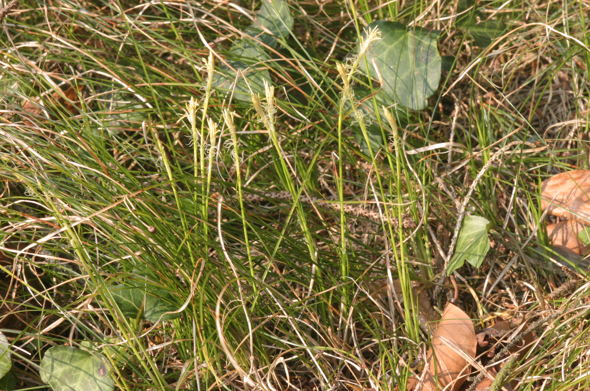 Carex alba